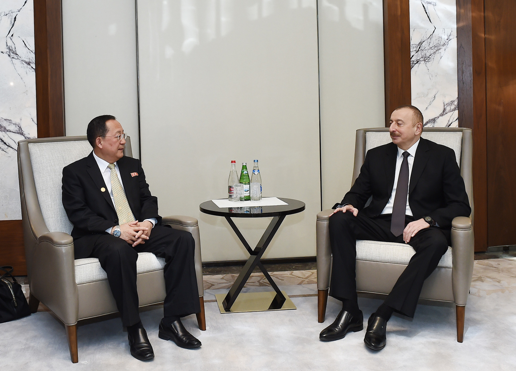 President of Azerbaijan Ilham Aliyev & Minister of Foreign Affairs of North Korea Ri Yong-ho in Baku, 5 April 2018